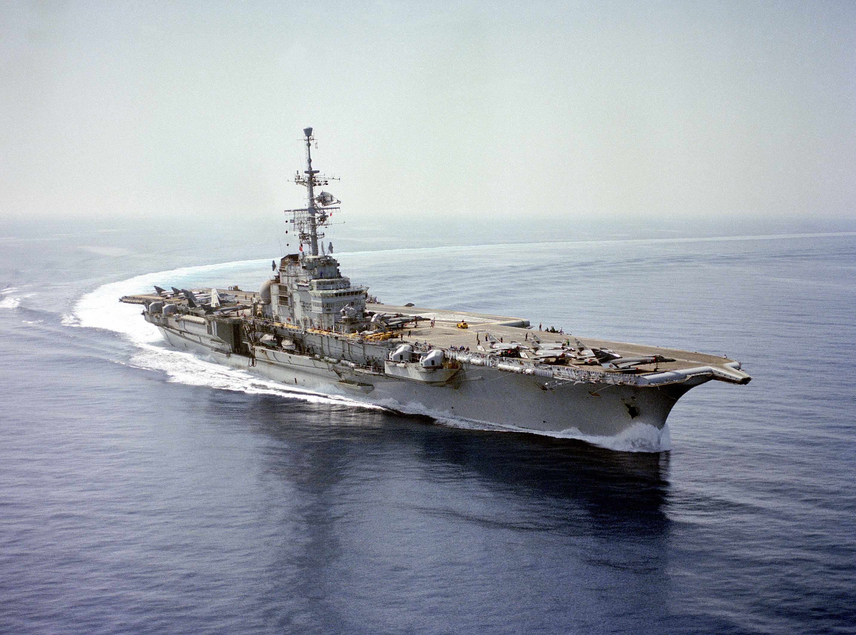 A starboard bow view of the French CLEMENCEAU class aircraft carrier FOCH (R-99) as the vessel executes a high speed turn during exercise Distant Drum.